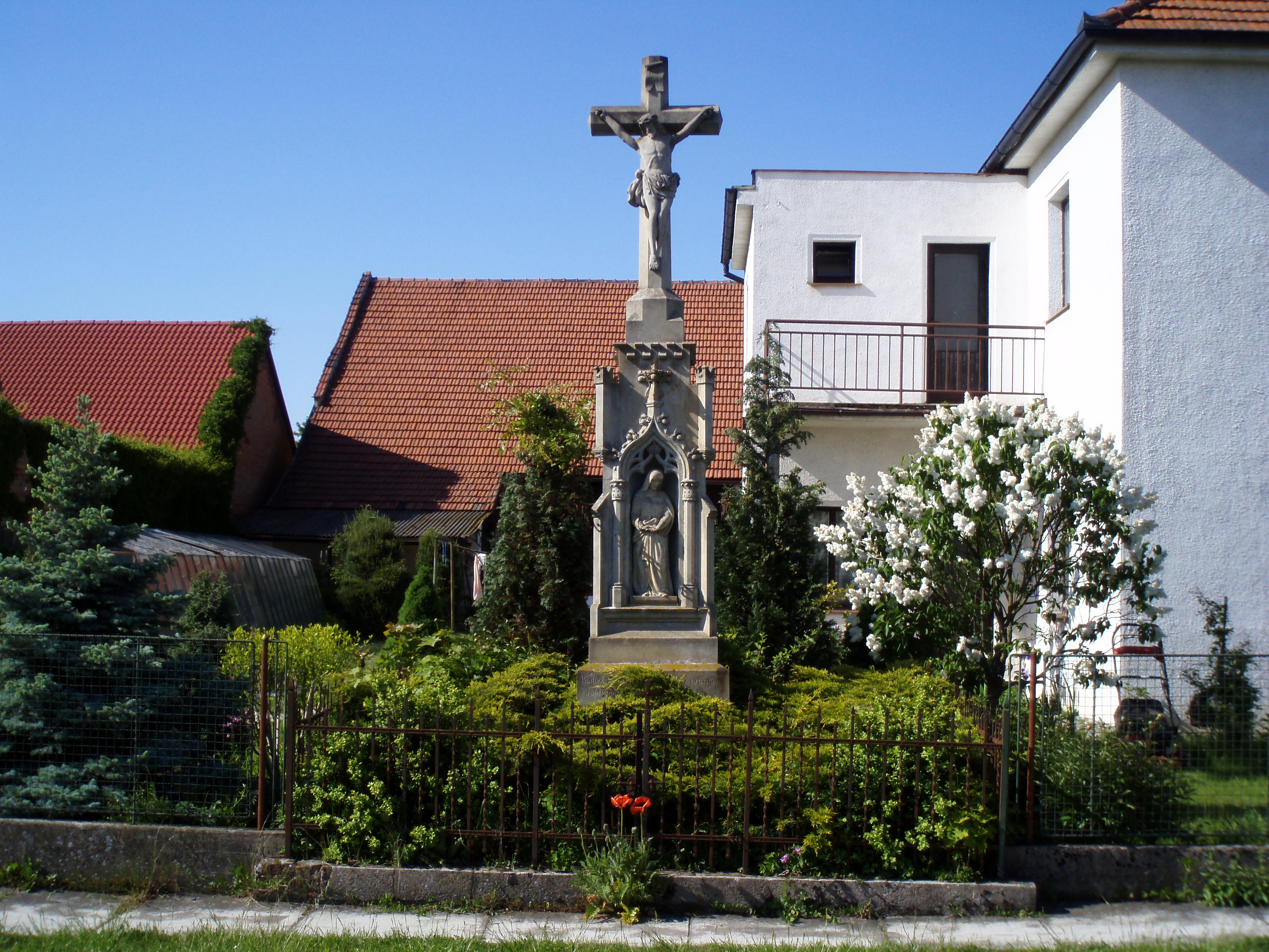 Cross in Rusek (Hradec Králové) Česky: Kříž v Ruseku (Hradec Králové)